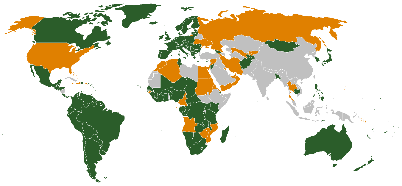 States parties of the Rome Statute of the International Criminal Court. Updated to February 2012 (120 members).